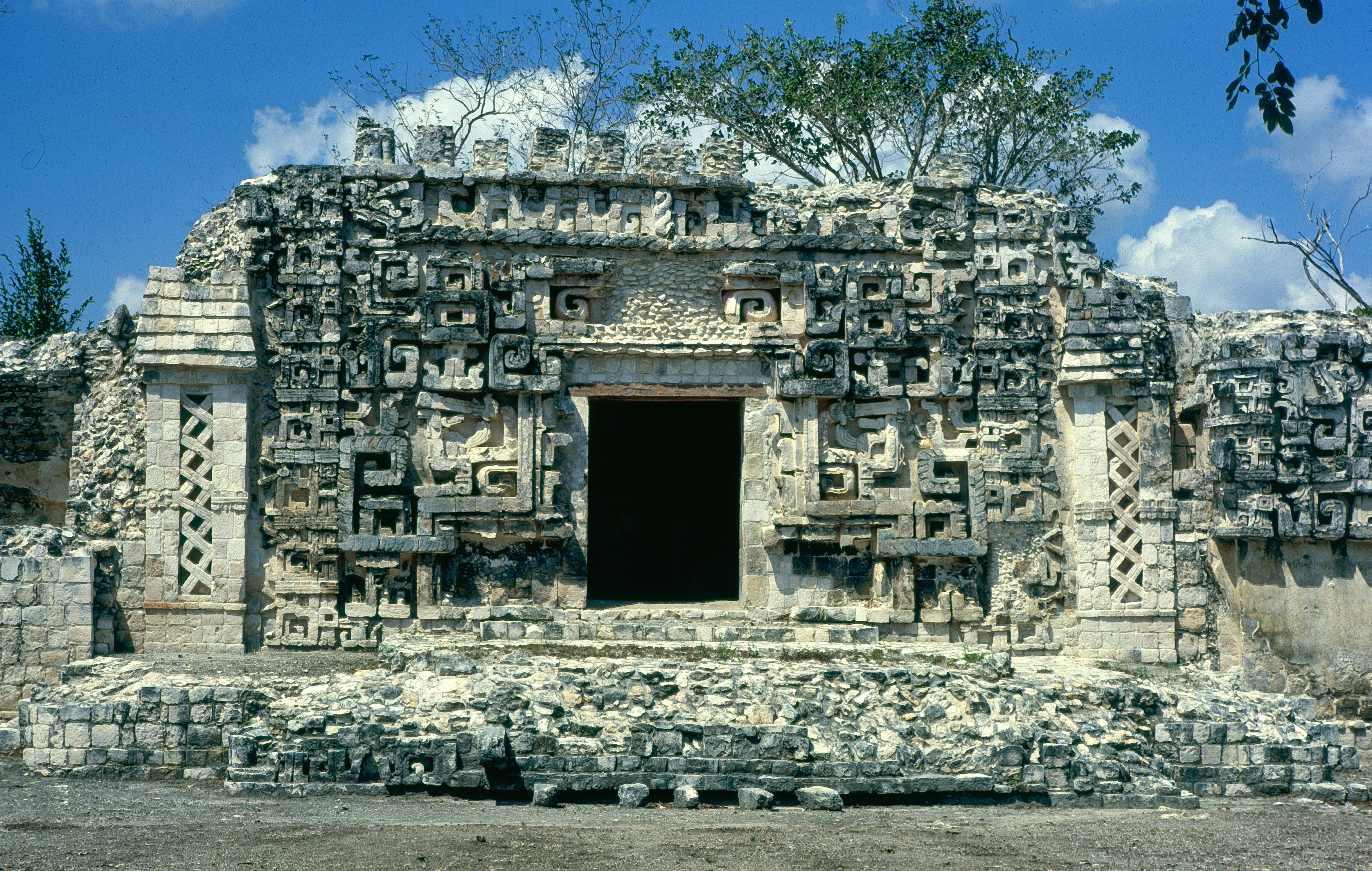 Hochob, Campeche, Mexico: building II, central part